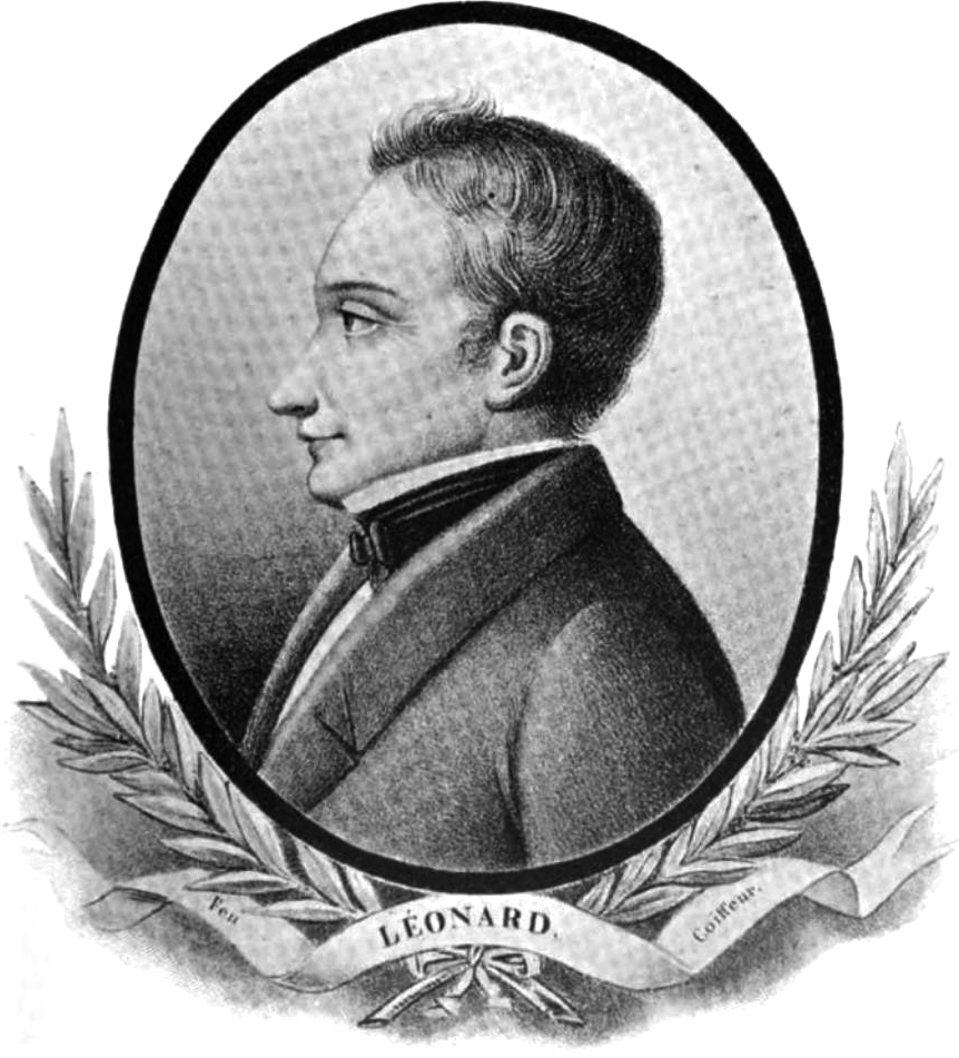 Jean-François Autié, called Léonard, French hairdresser